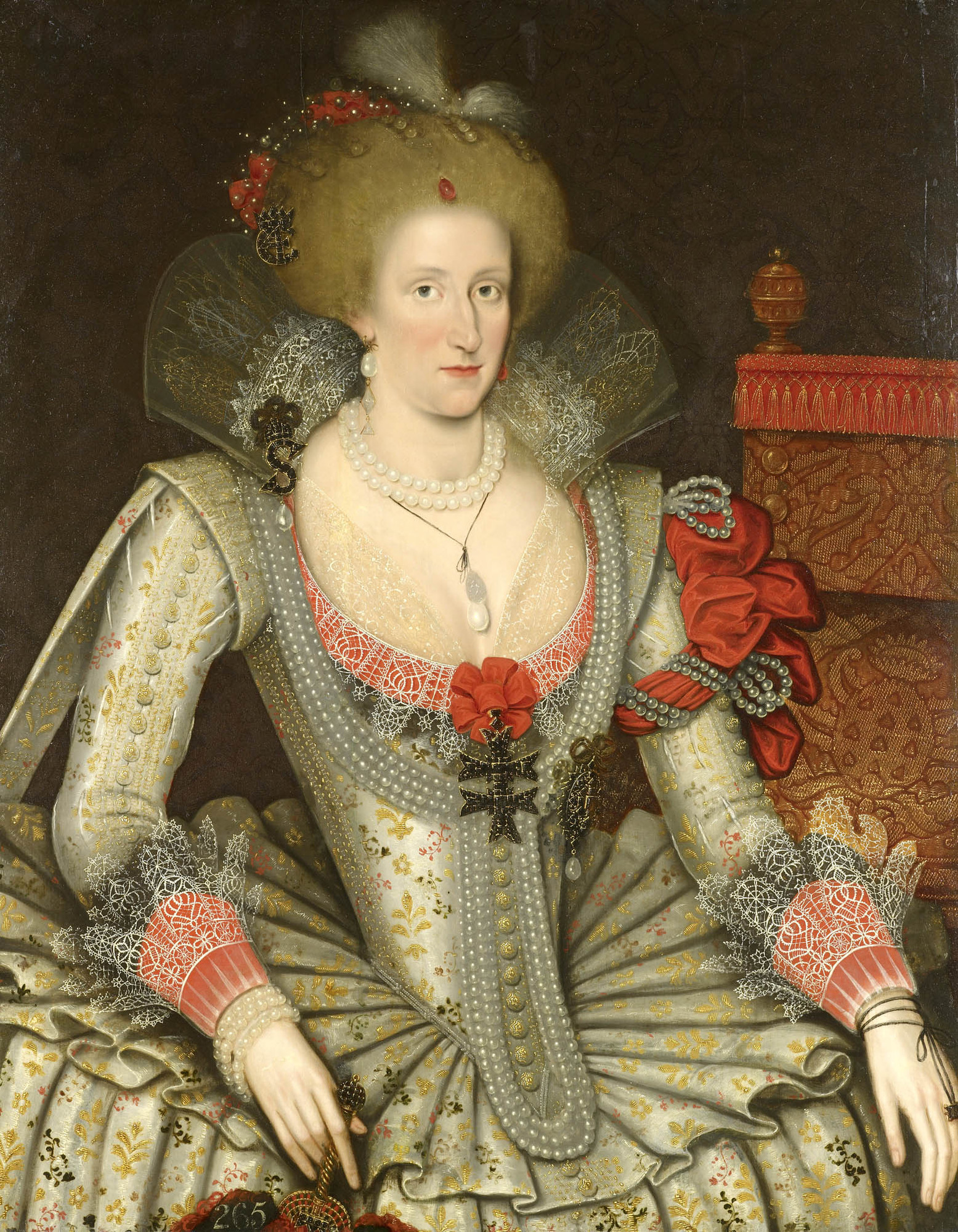 Anne of Denmark, Queen of Great Britain